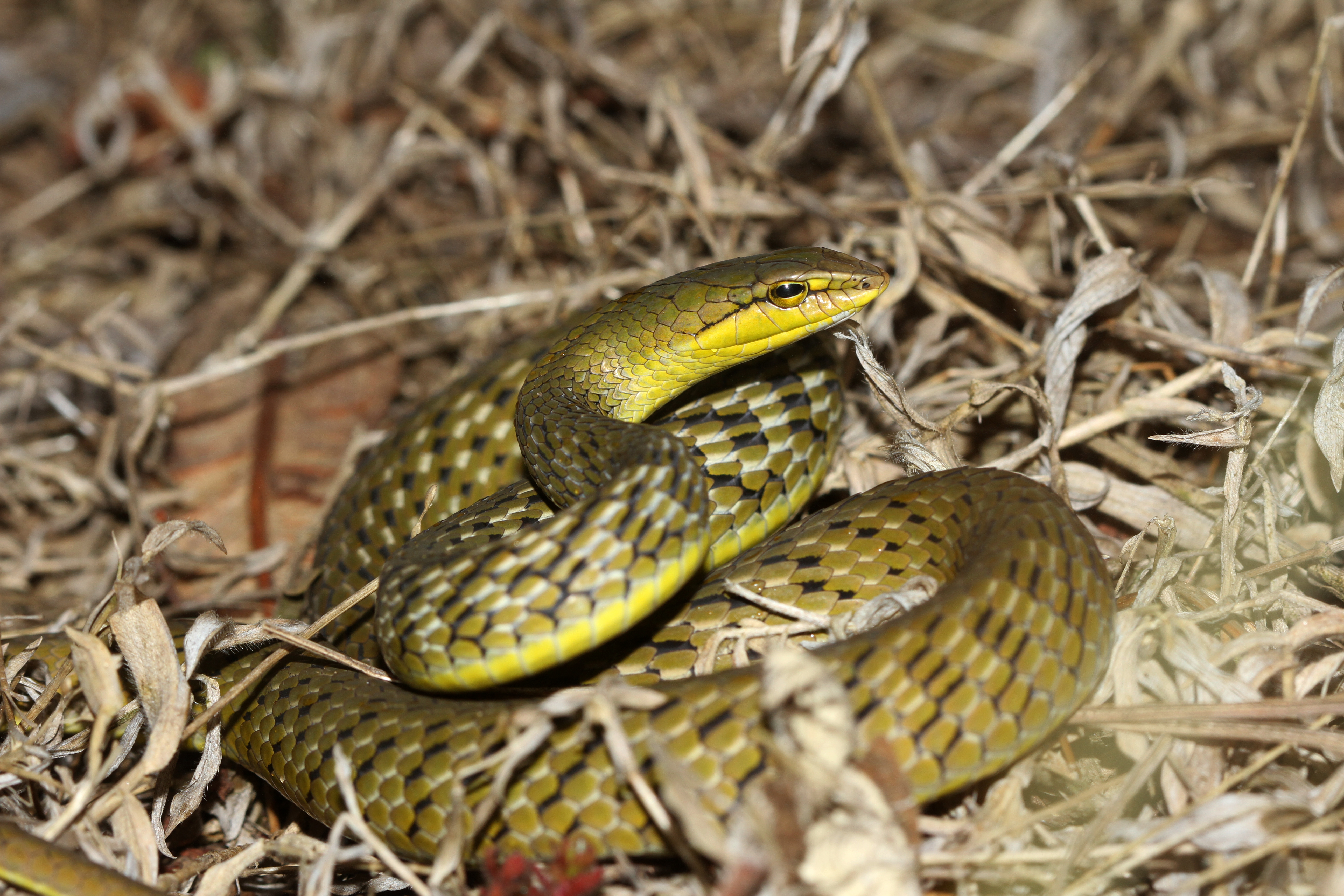 Reptiles from India